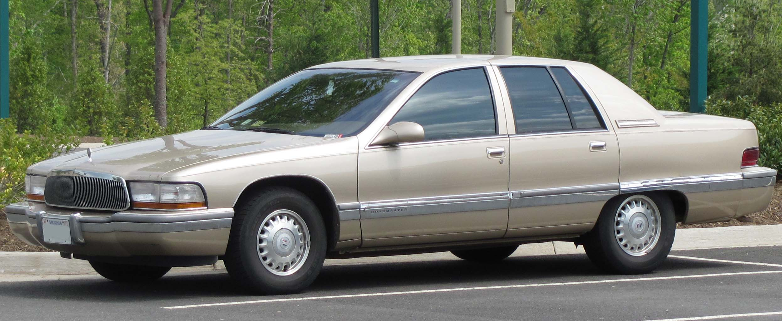 1991-1996 Buick Roadmaster photographed in Gainesville, Virginia, USA.